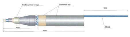 Illustration of Cosmos 1818 and Cosmos 1867